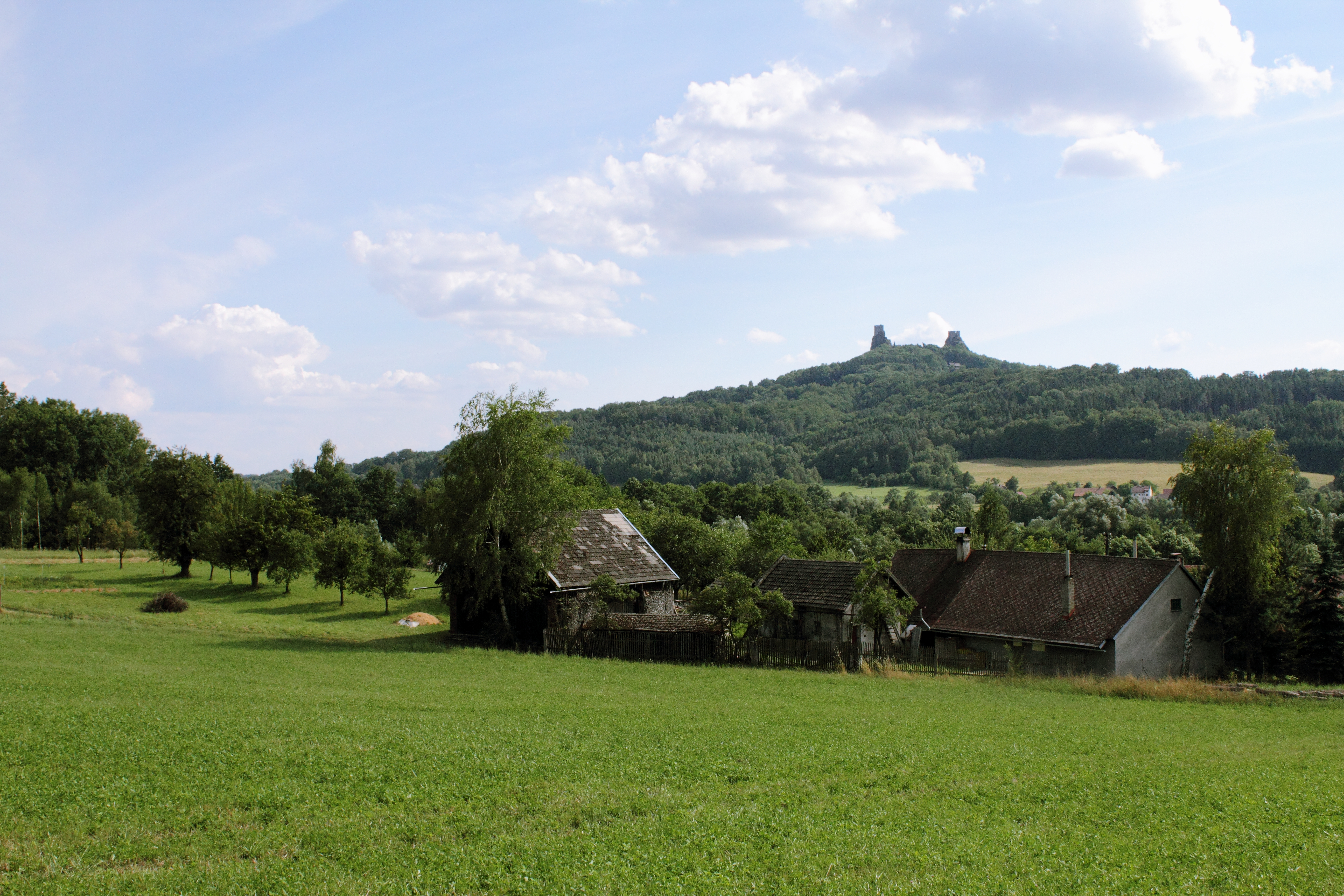 Trosky Castle from Borek (Part of Hrubá Skála)